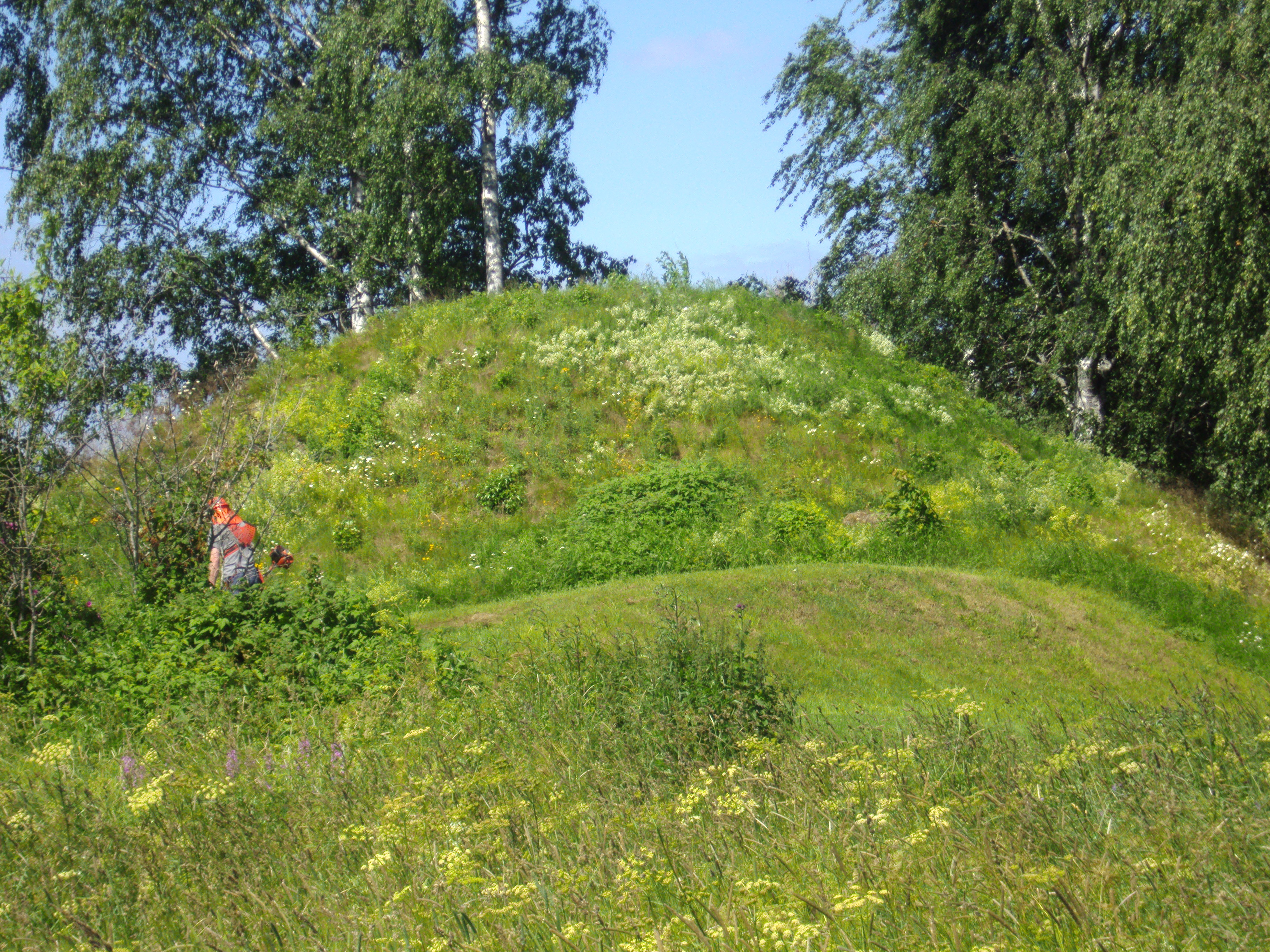 The borrow of chief Gudmund.